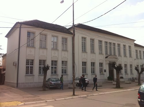 Library Vicentije Rakic Paracin